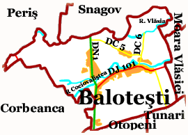 Map of Balotesti.